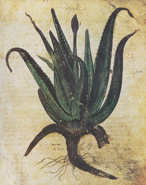 Aloe vera, folio 15r